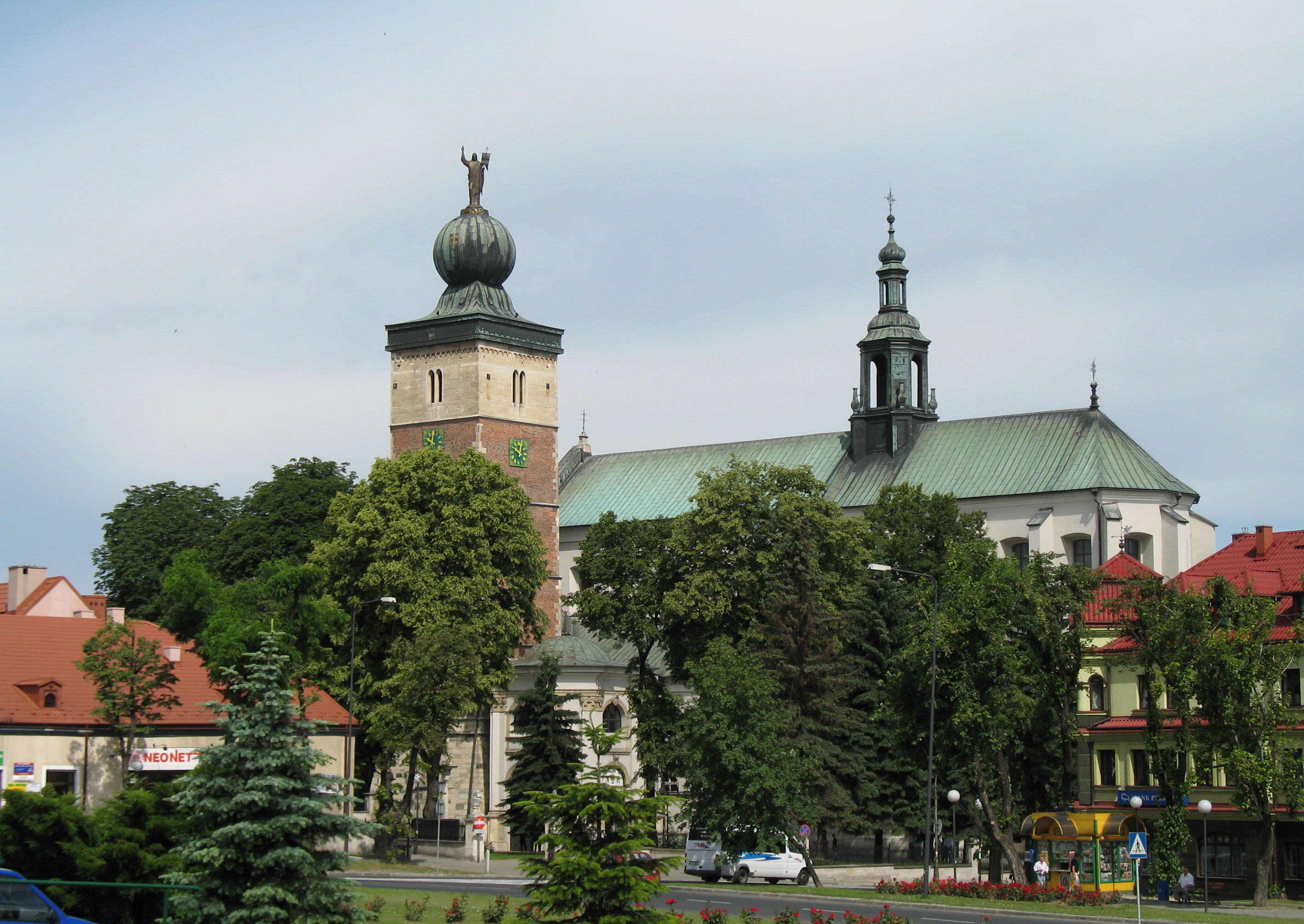 Basilica of the Holy Sepulchre in Miechów, Poland.